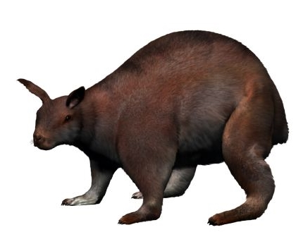 Nuralagus rex